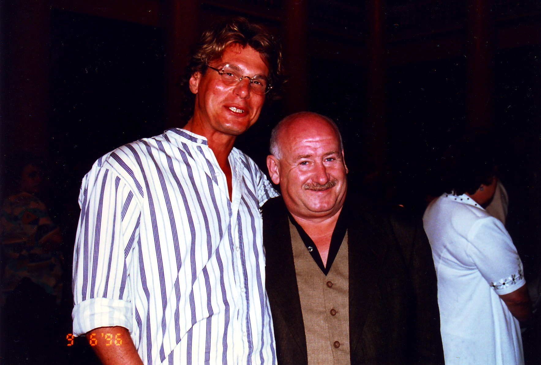 Evgeny Dodolev and Mark Rudinstein